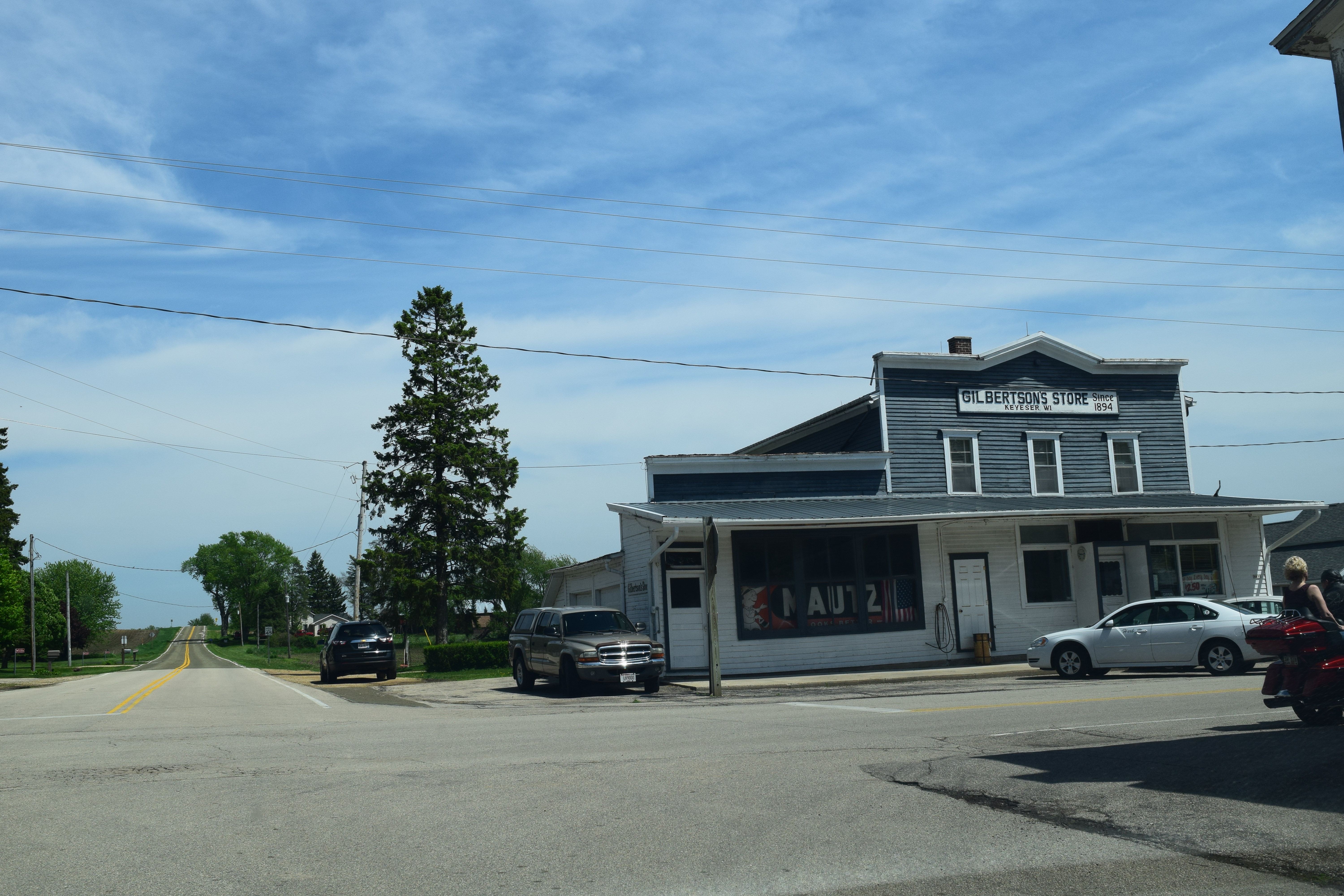 Gilbertson's Store in Keyeser, Wisconsin.